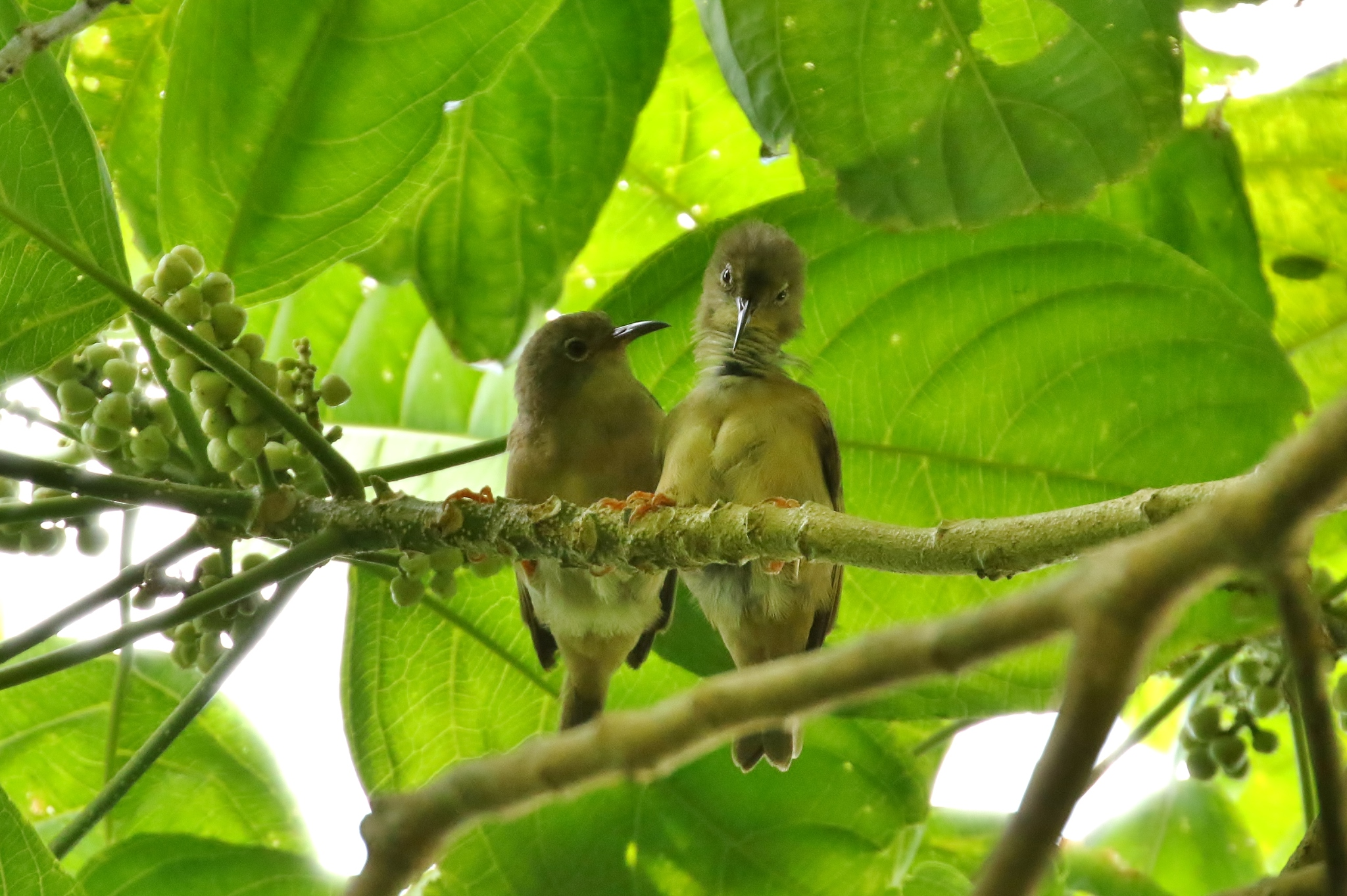 Long-billed White-Eye (Rukia longirostra) observed on Pohnpei Island in 2019.